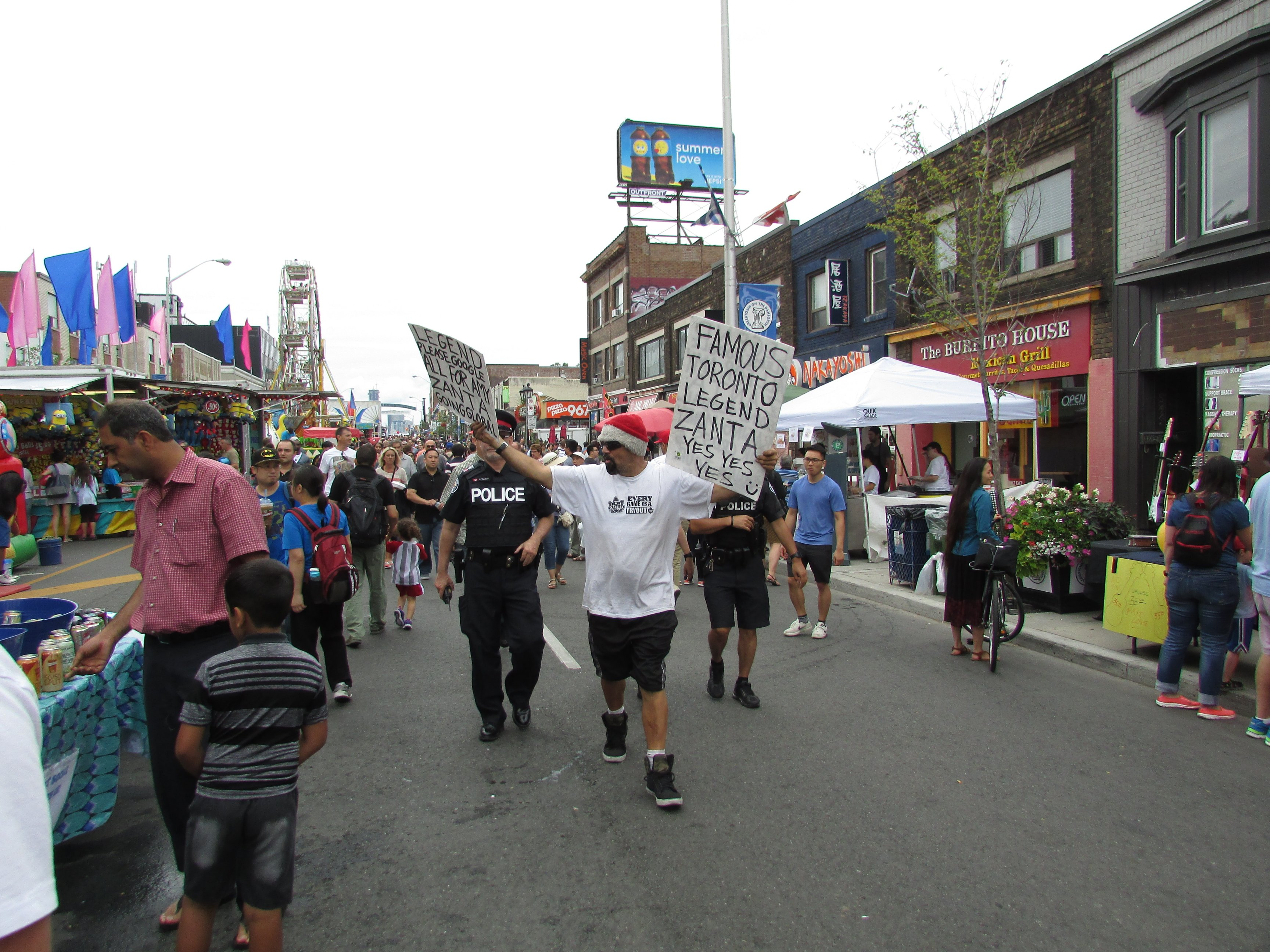 David Zancai, known for his "Zanta" persona, is escorted by police through the Taste of the Danforth in Toronto.